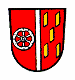 Coat of Arms of Röllbach